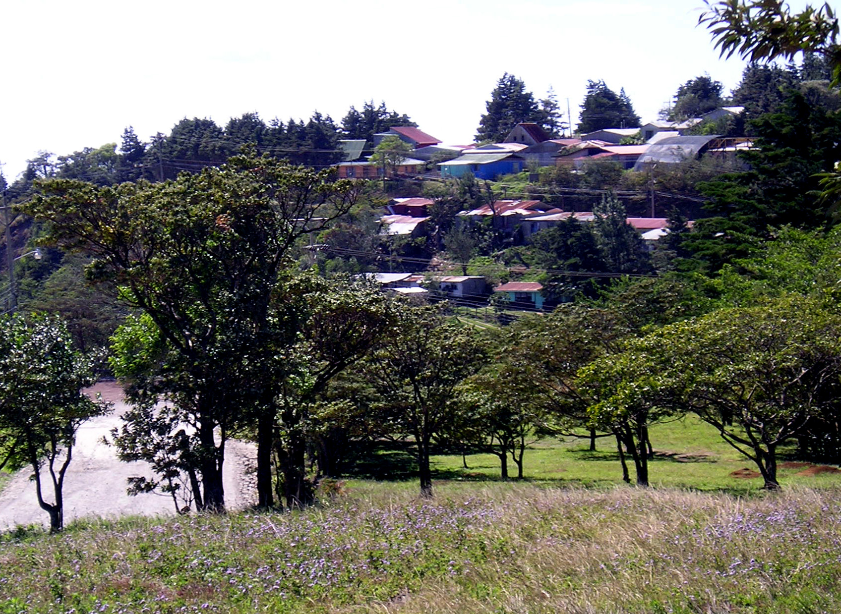 Village of Monteverde — in Puntarenas Province, northwestern Costa Rica.